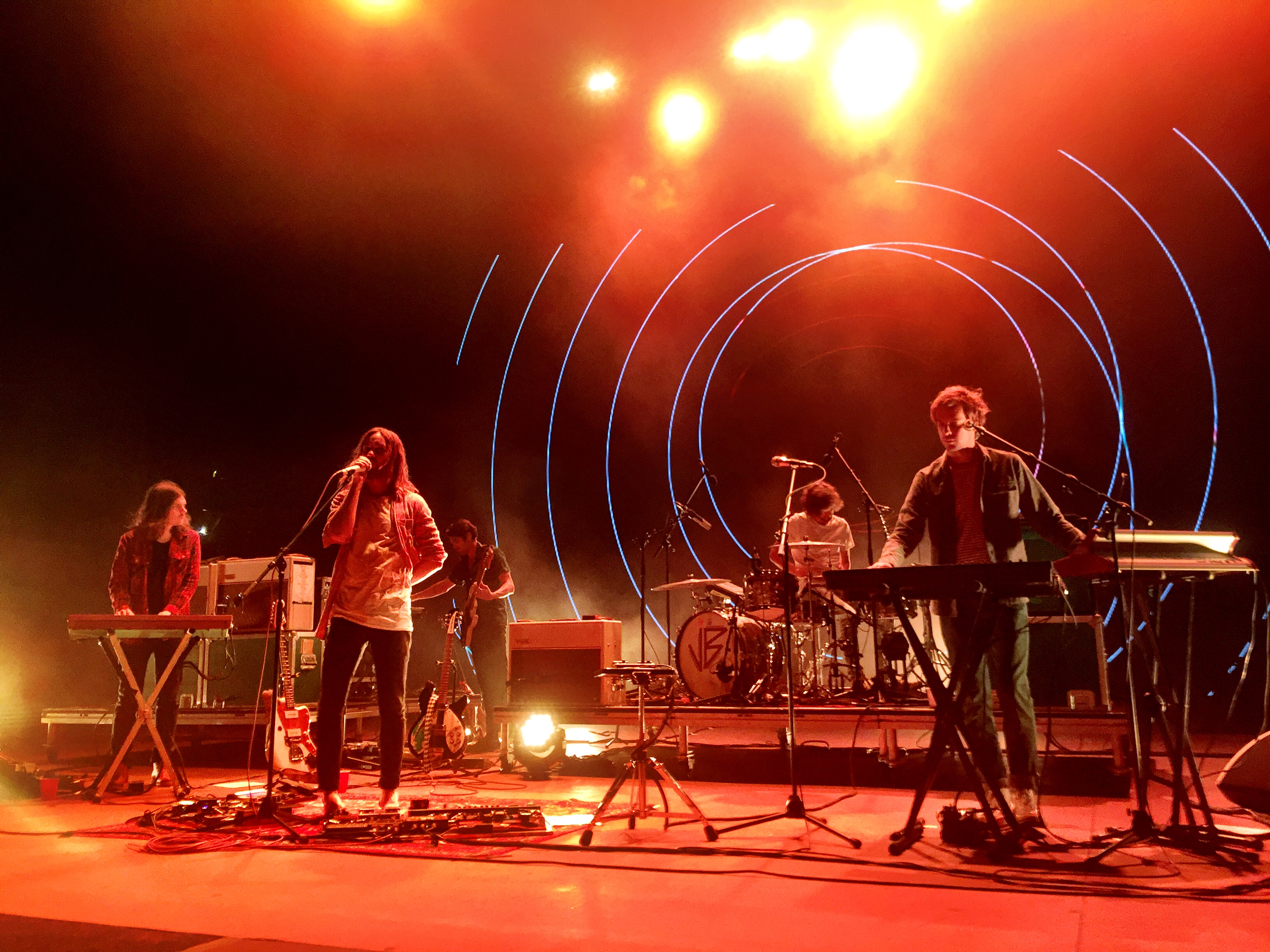 Tame Impala performing at Red Rocks Amphitheatre on August 31, 2016 in Denver County, Colorado.